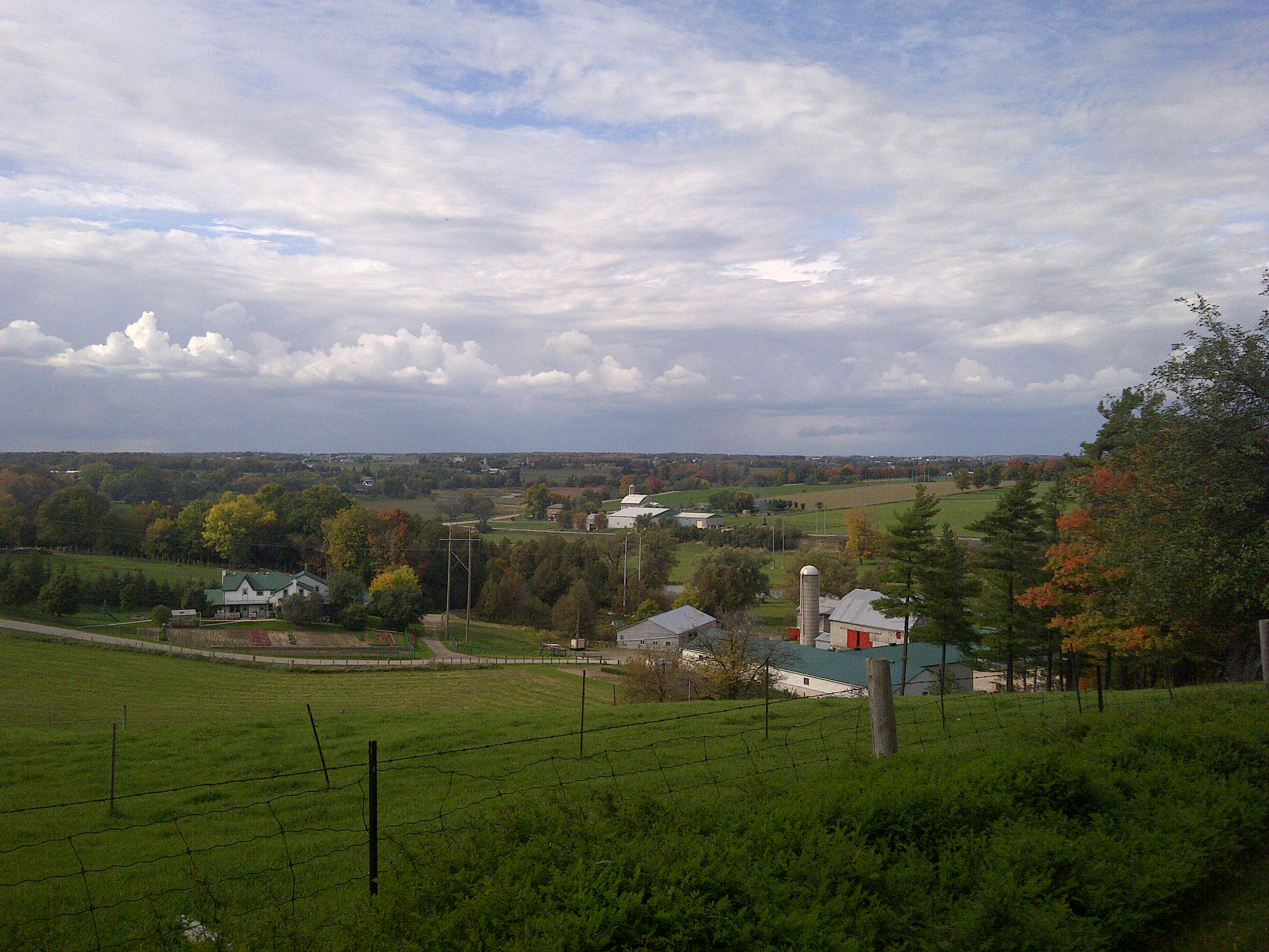 Skyline of Wellesley Township